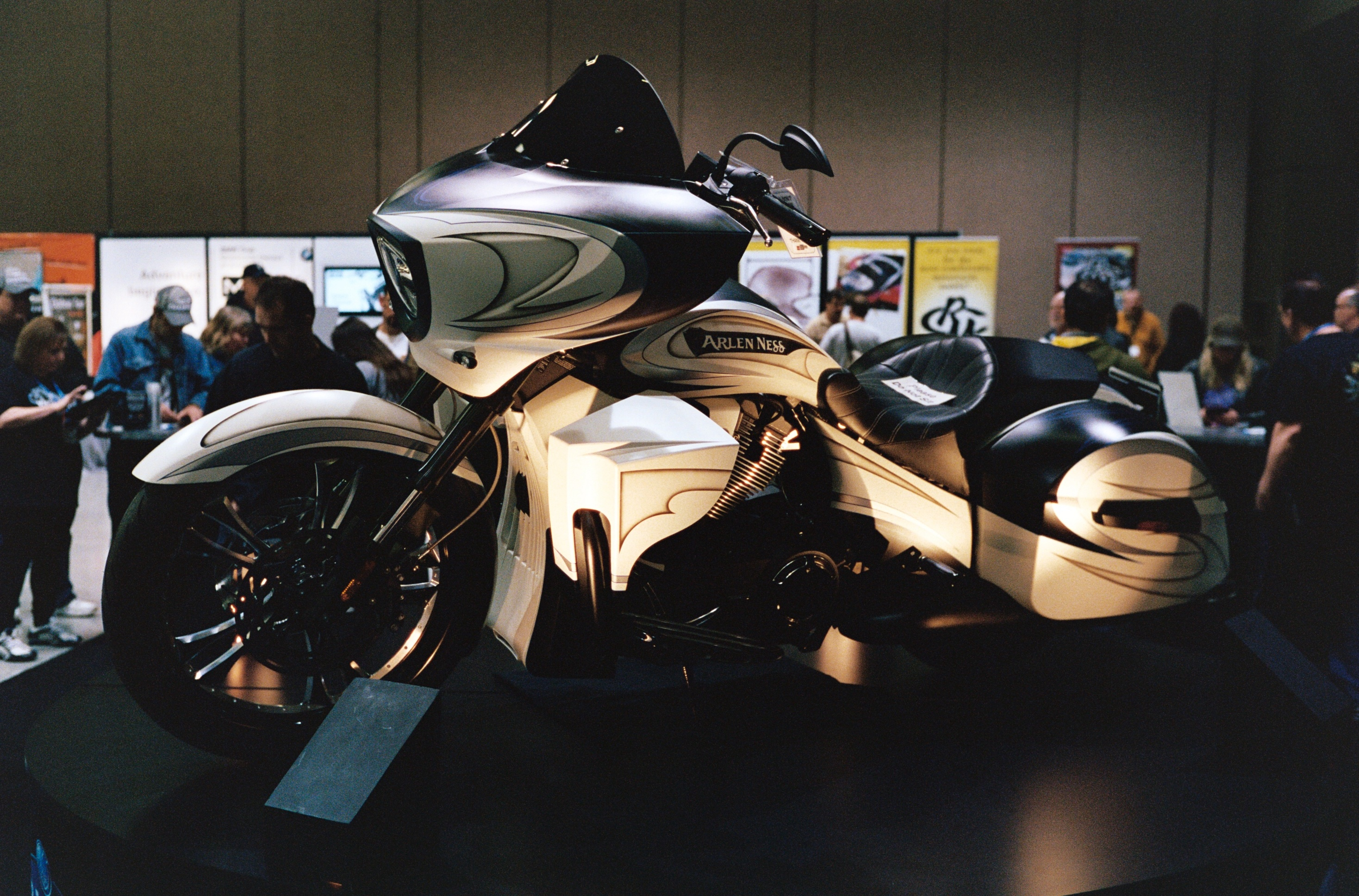 2014 Seattle International Motorcycle Show